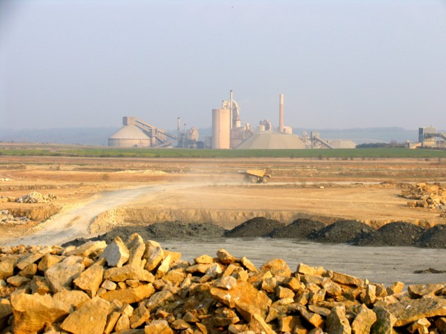 Ketton Quarry The Ketton cement works are in the background in the next square.